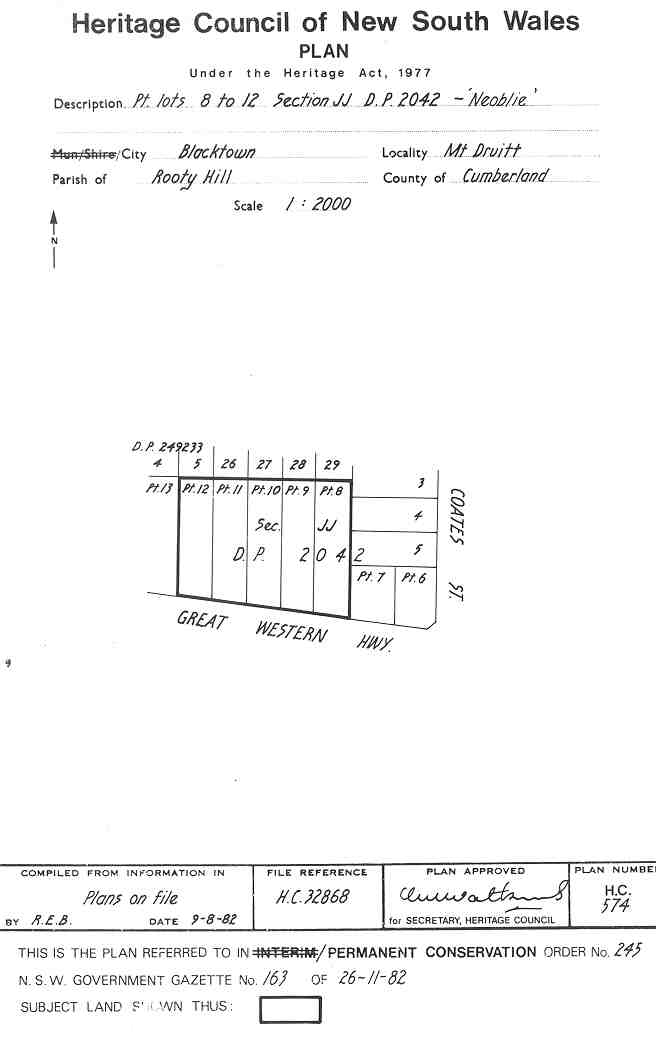 Neoblie: PCO Plan Number 245